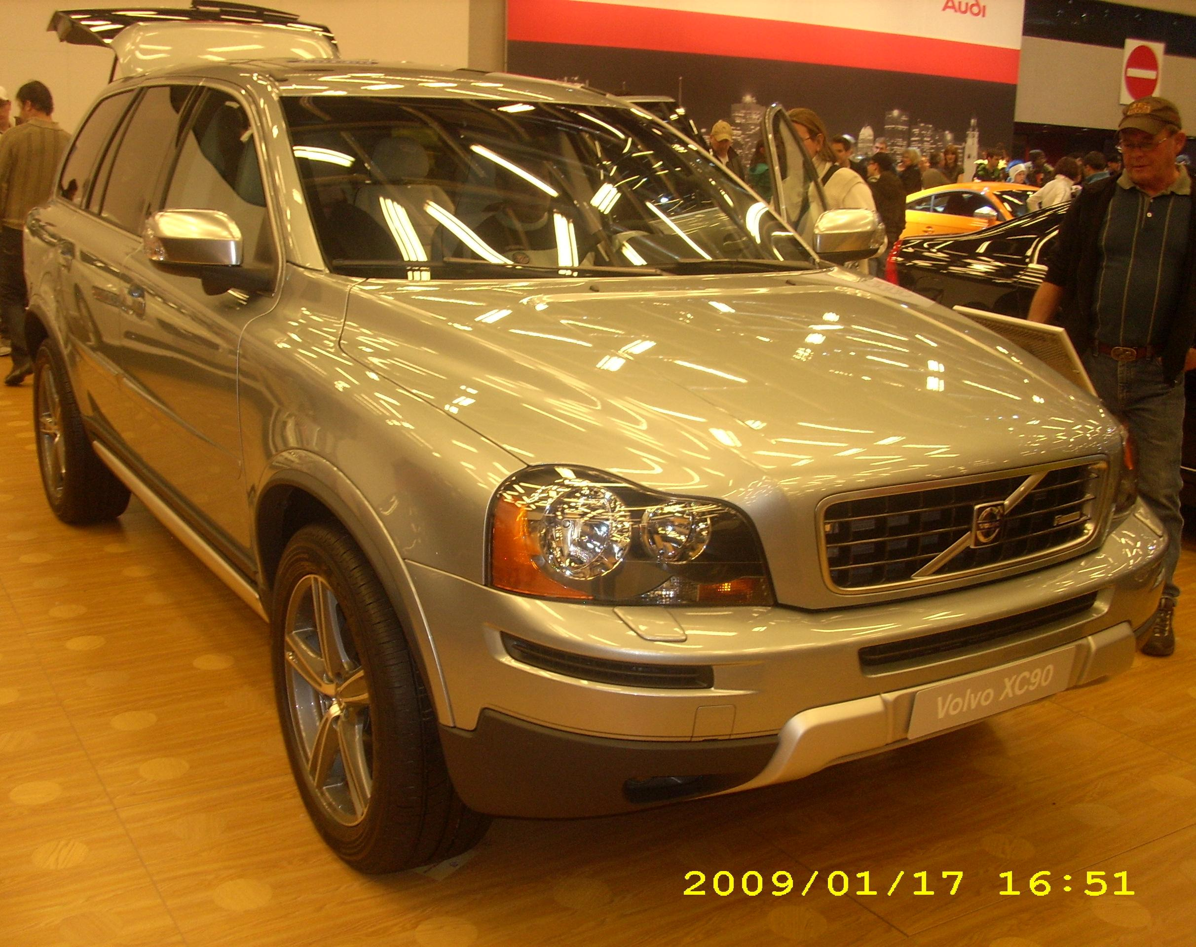 2009 Volvo XC90 photographed at the 2009 Montreal International Auto Show